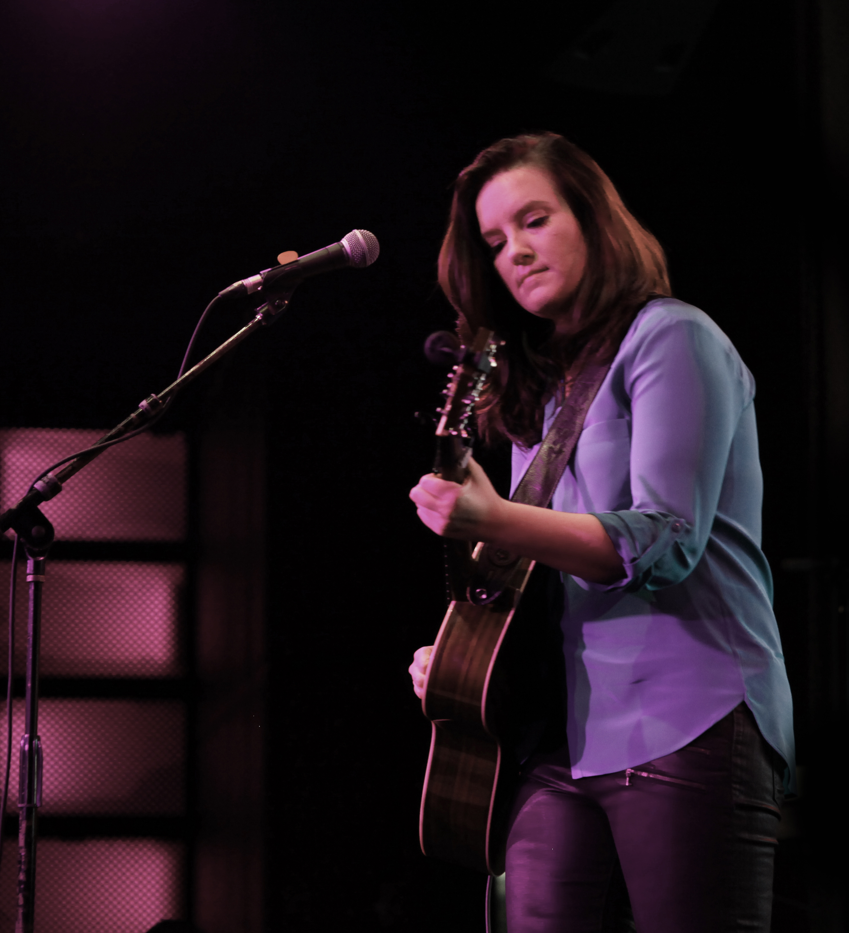 Clark at Highline Ballroom, June 2014.